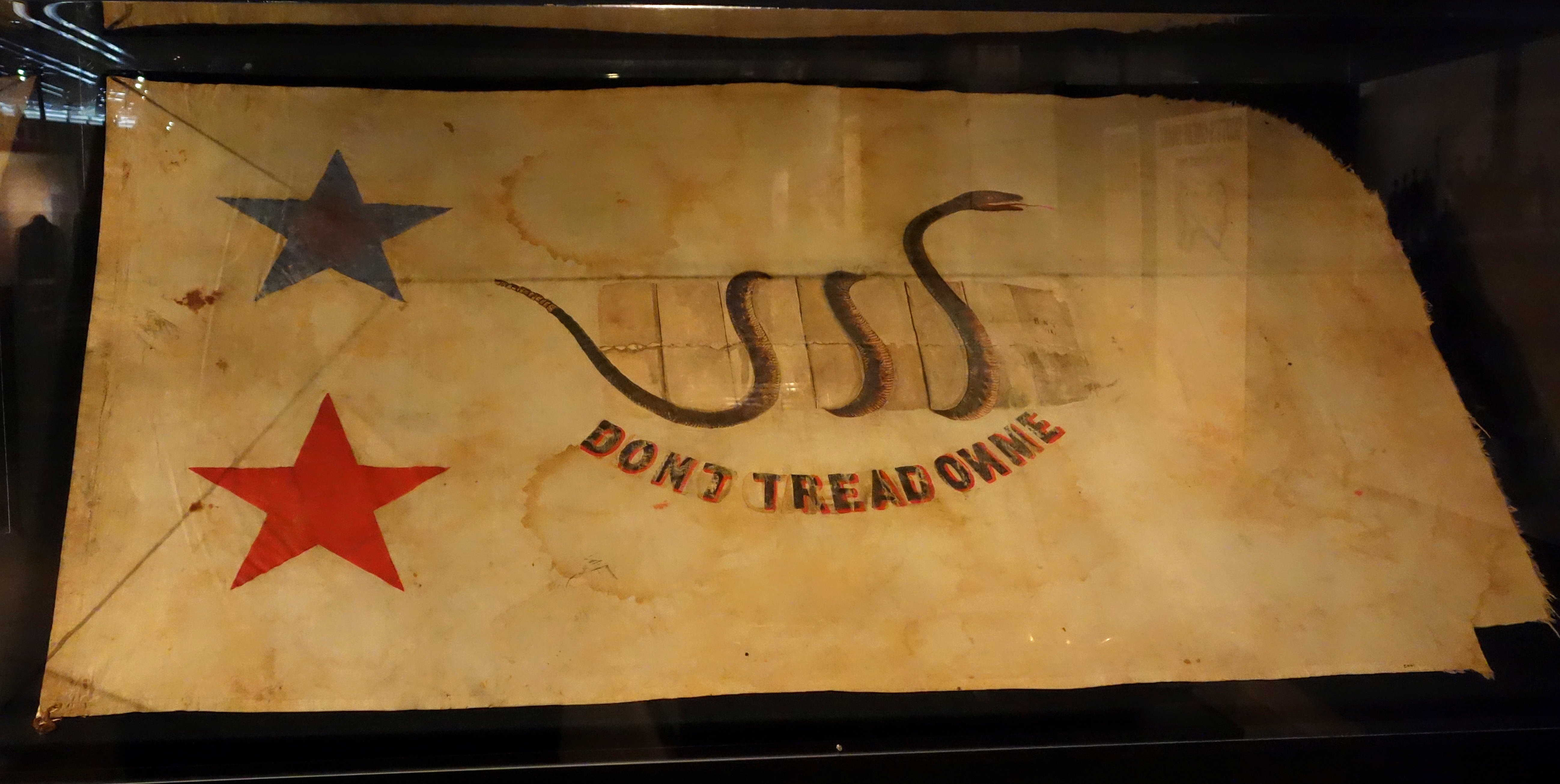 Exhibit in the Wisconsin Veterans Museum, Madison, Wisconsin, USA. This item is old enough so that it is in the public domain.